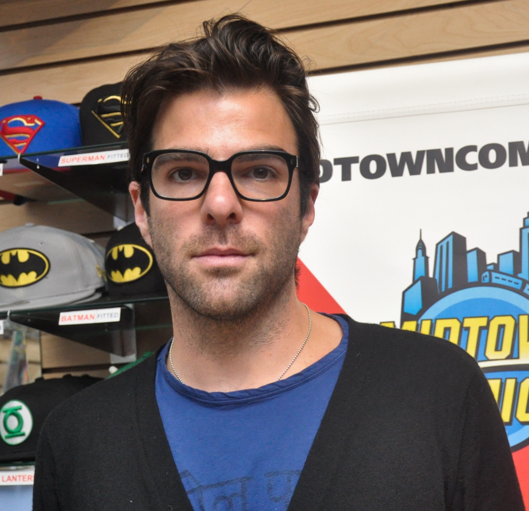 Actor Zachary Quinto at a May 18, 2011 signing at Midtown Comics Downtown in Manhattan.